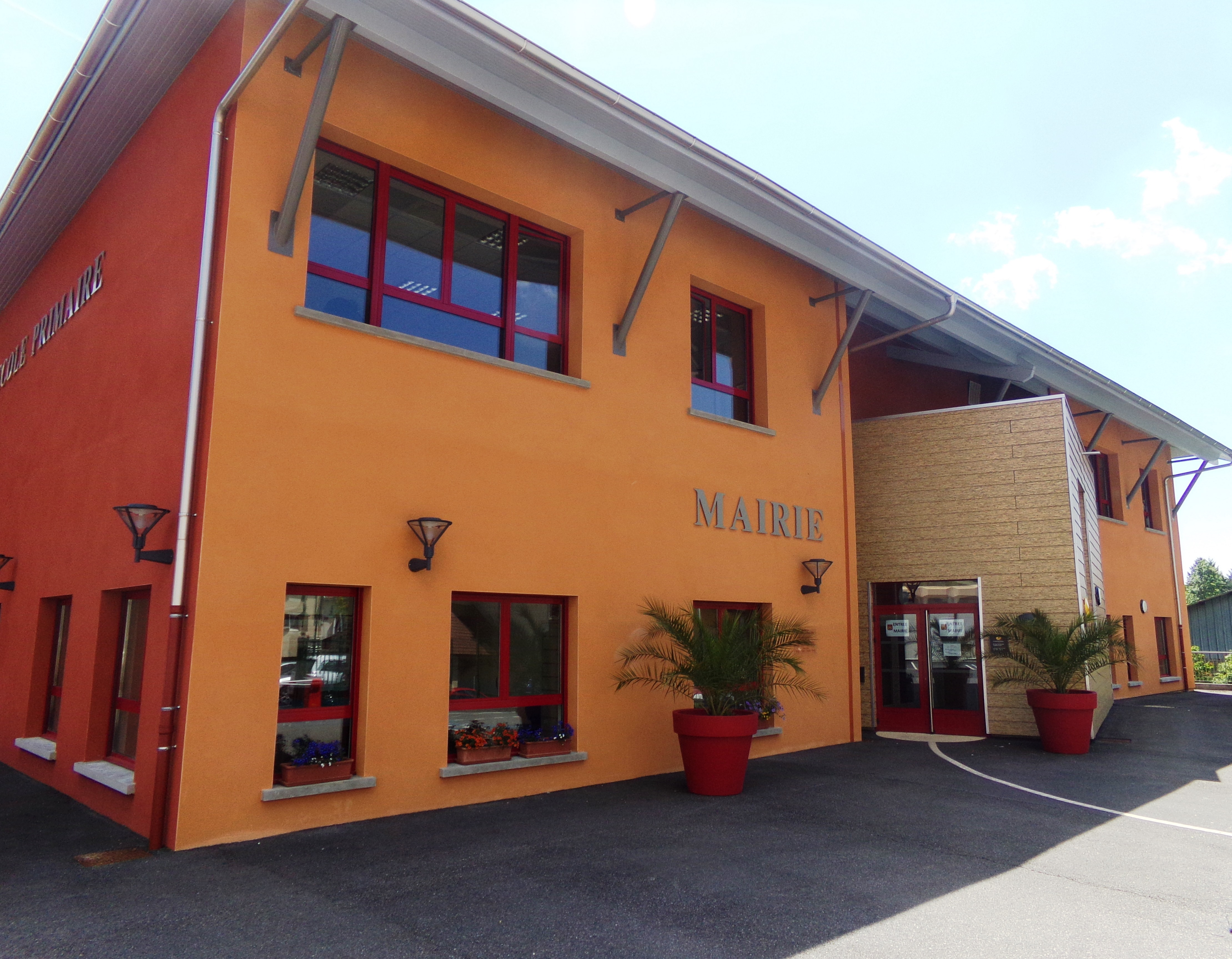 Mairie de Châtillon-en-Michaille